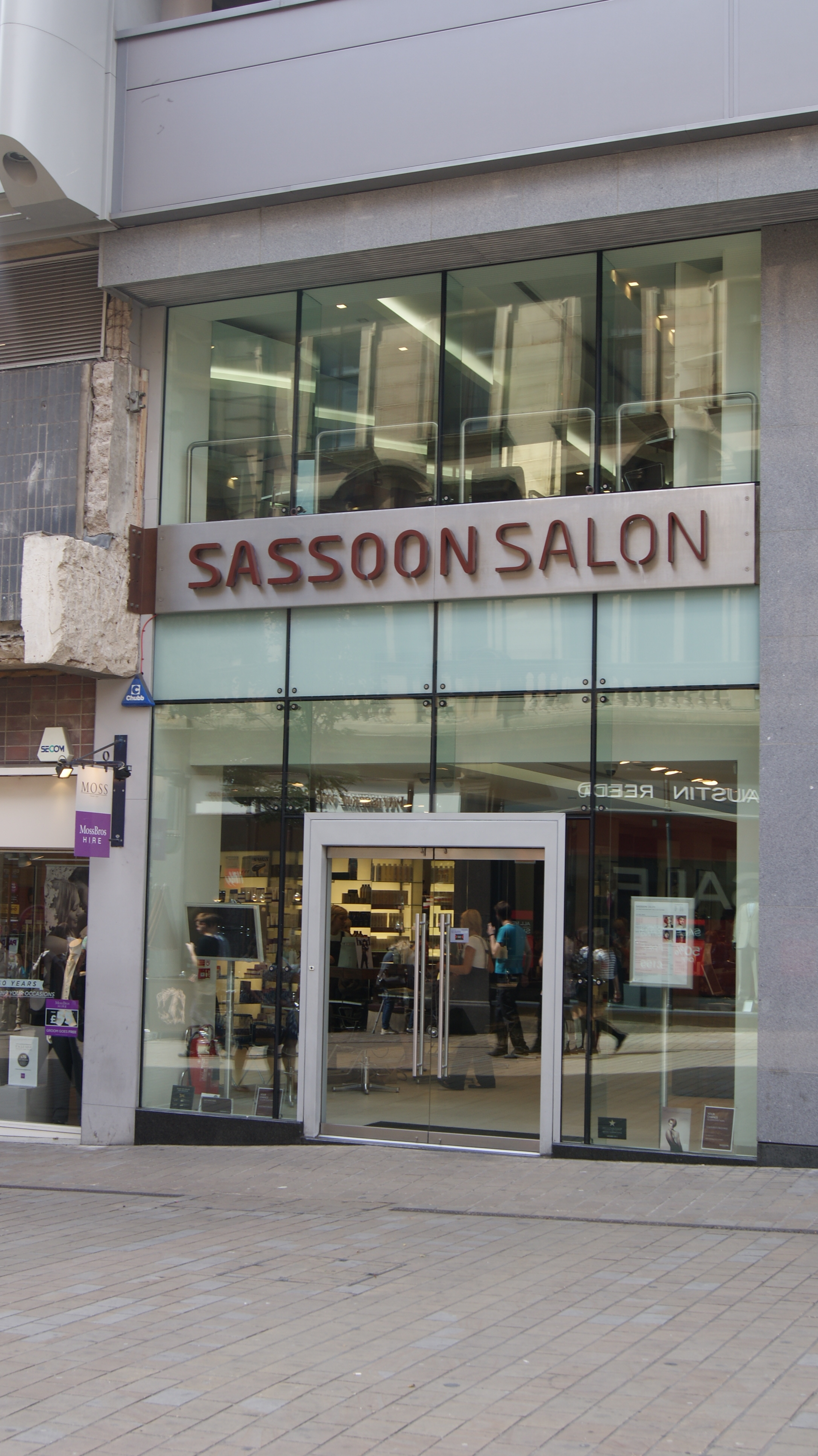 Sassoon Salon, Albion Street, Leeds, West Yorkshire. Taken on the afternoon of Monday the 4th July 2011.